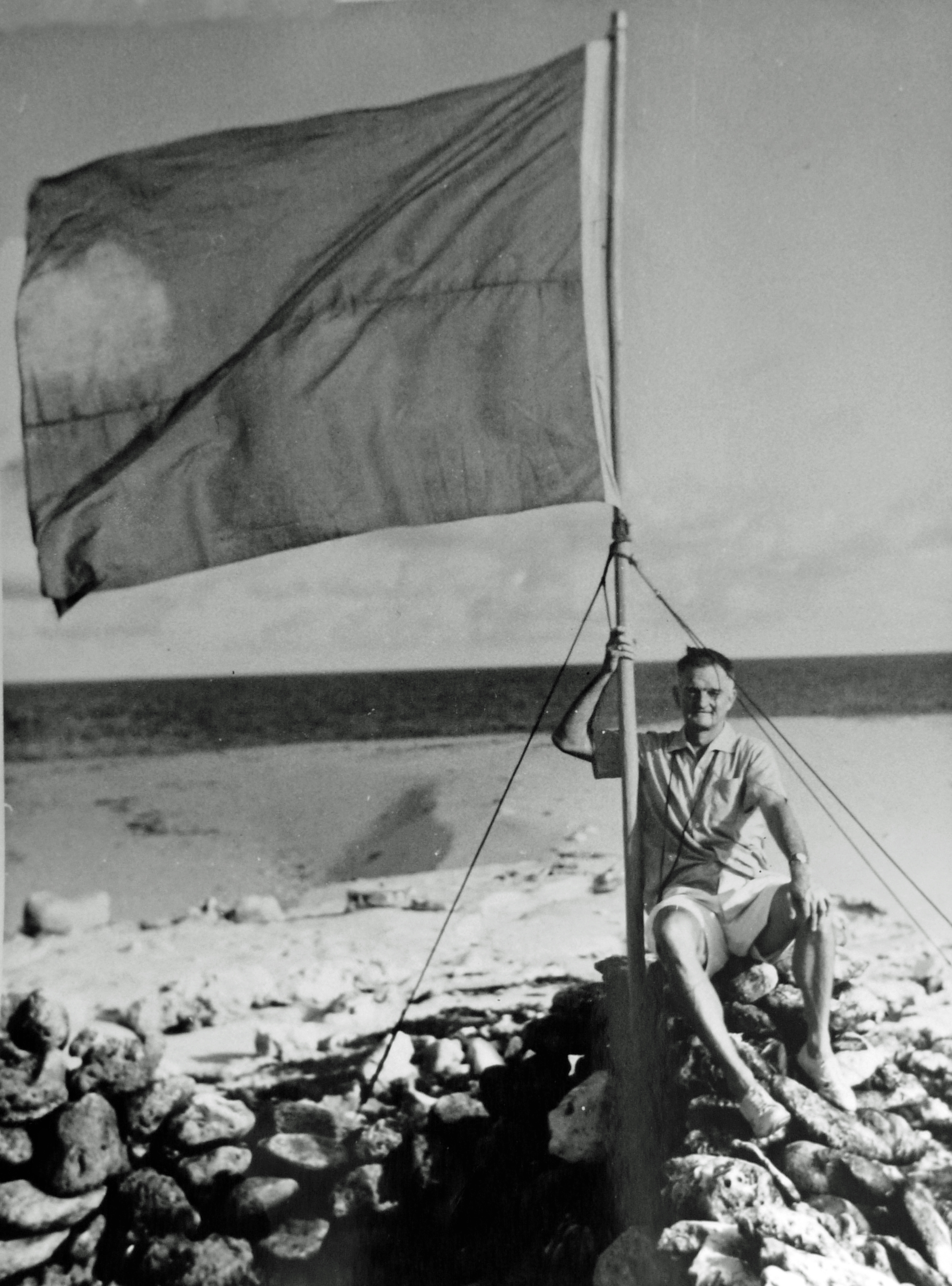 1.1 meg